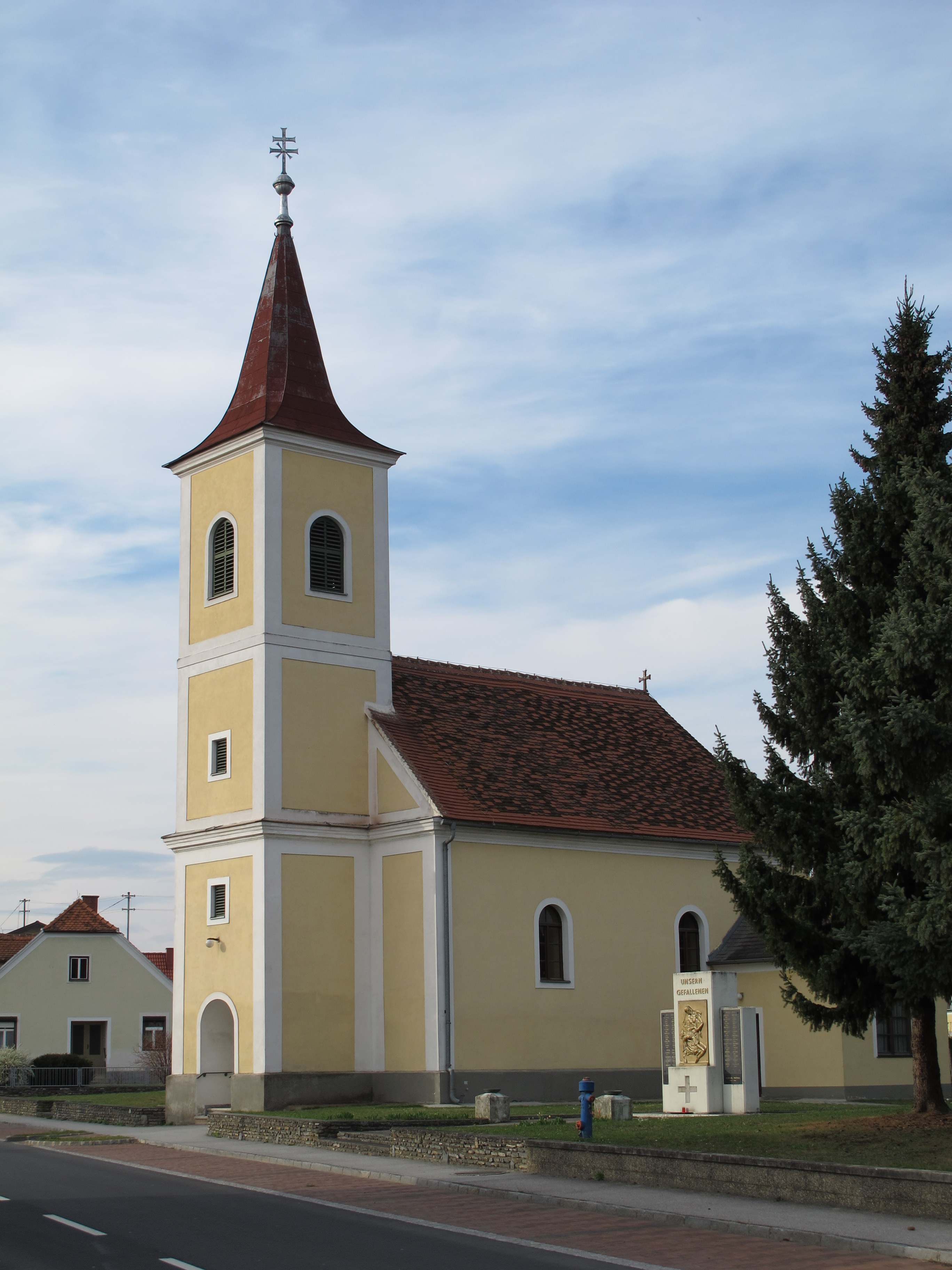 Kirche Kotezicken